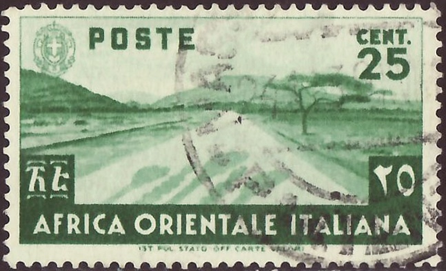 Stamp of Italian East Africa; 1938; definitive stamp for the normal postmail - East African landscape with spaceiously savannah plain, two greater mountains, a central street and shades of head-carrying people on this street; Italian coat of arms in the left upper corner Stamp: Michel: No. 7; Yvert & Tellier: No. 7 Color: green Watermark: none Nominal value: 25 CENT. (Centesimo) Postage validity: from 7 February 1938 until 1941 date QS:P,+1950-00-00T00:00:00Z/7,P580,+1938-02-07T00:00:00Z/11,P582,+1941-00-00T00:00:00Z/9